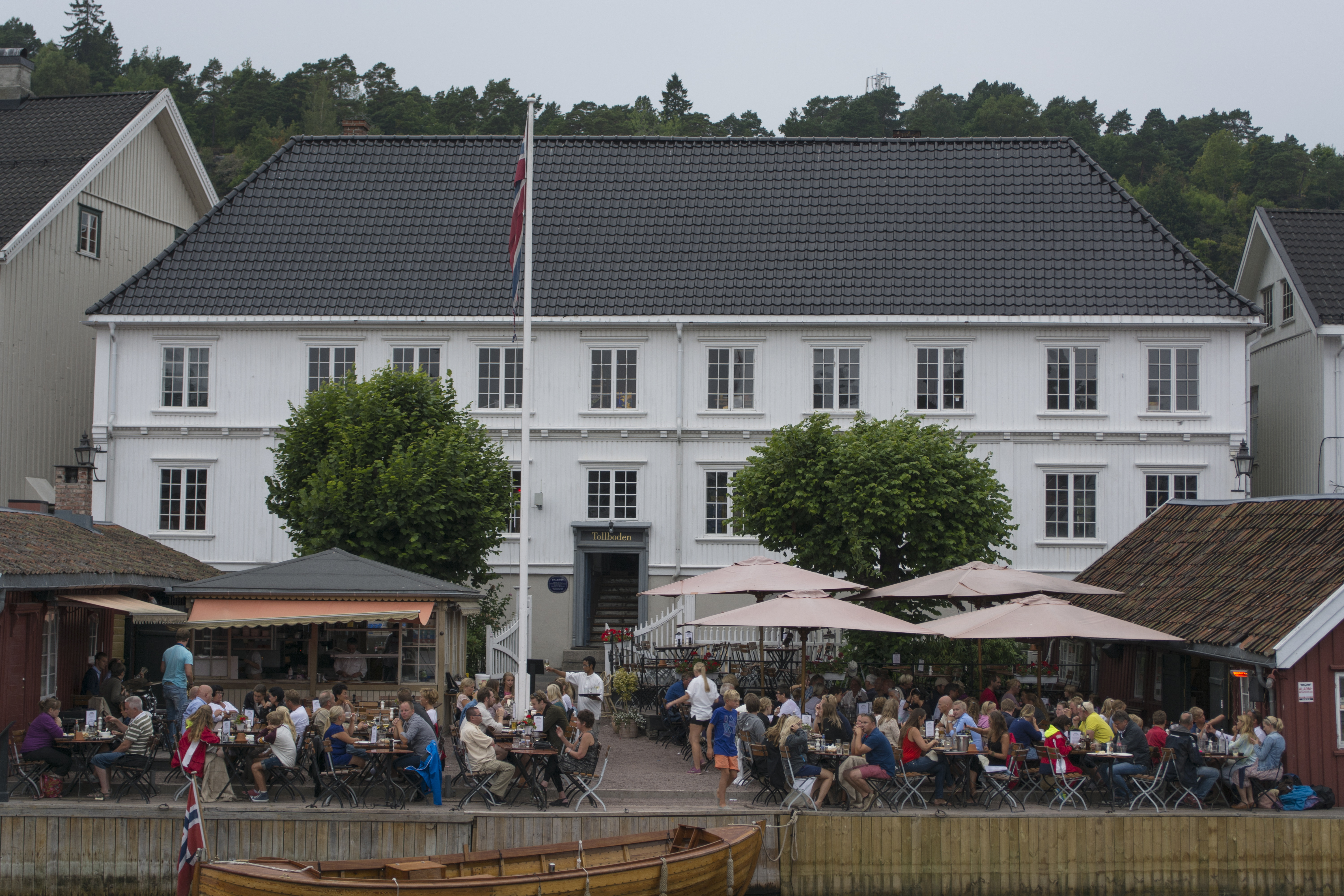 Kragerø customs-house